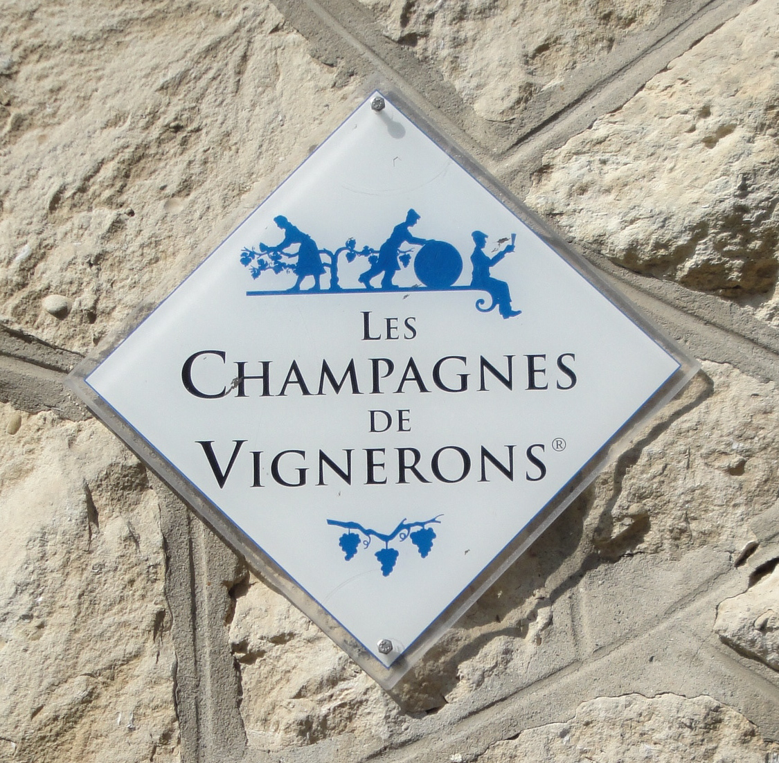 Sign for producers of Grower Champagne, "Champagne de Vignerons". Here outside Chartogne-Taillet, Merfy.